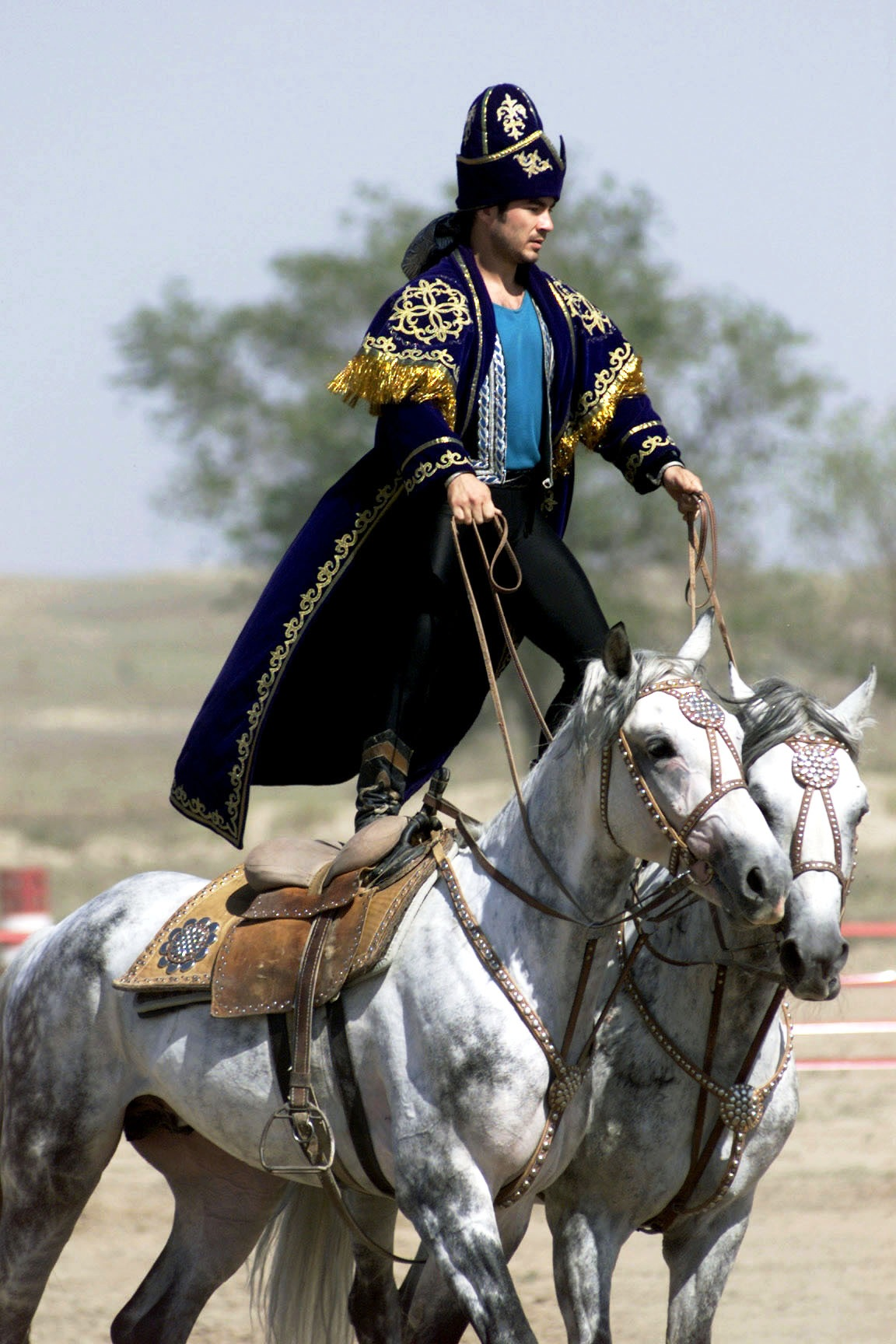 A Kazakhstan performer demonstrate the long equestrian heritage as part of the gala concert during the opening ceremonies of Central Asian Pescekeeping Battalion (CENTRASBAT) 2000, Almaty, Kazakhstan, Wednesday 13 September 2000.